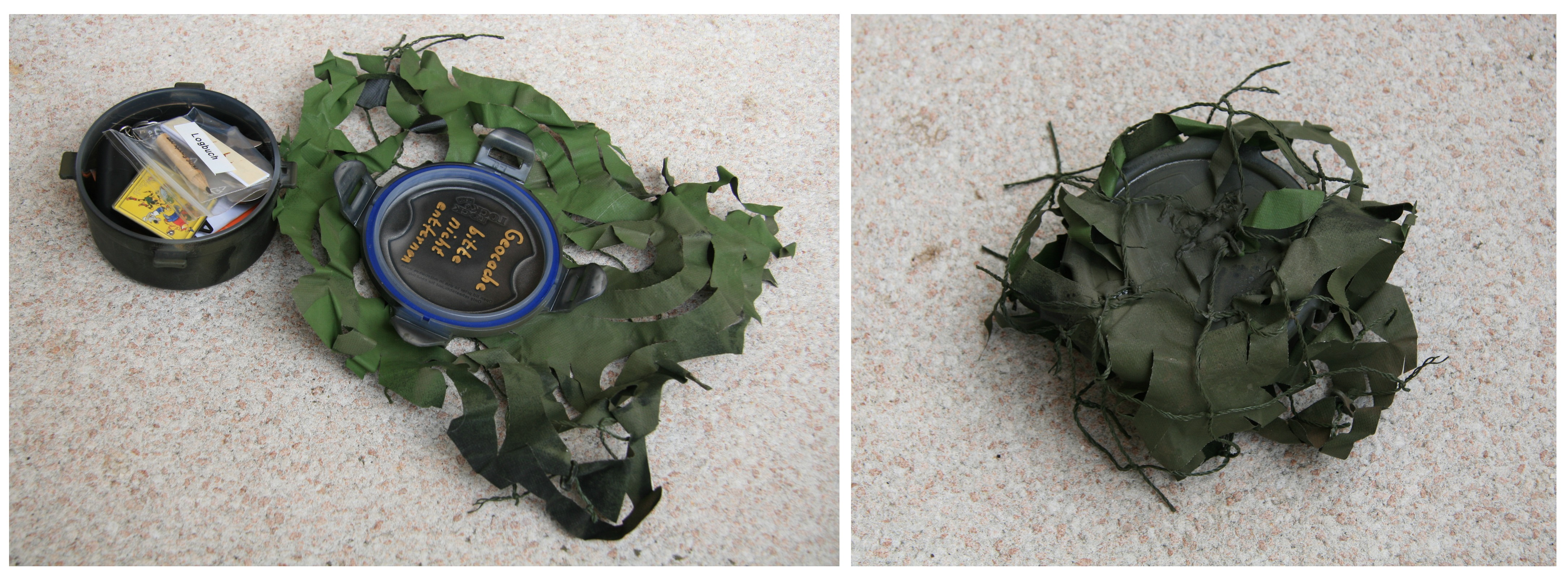 Geocache container with camouflage net, size small, ("B31-Schloß Hersberg" near Immenstaad at Lake Constance, Germany)